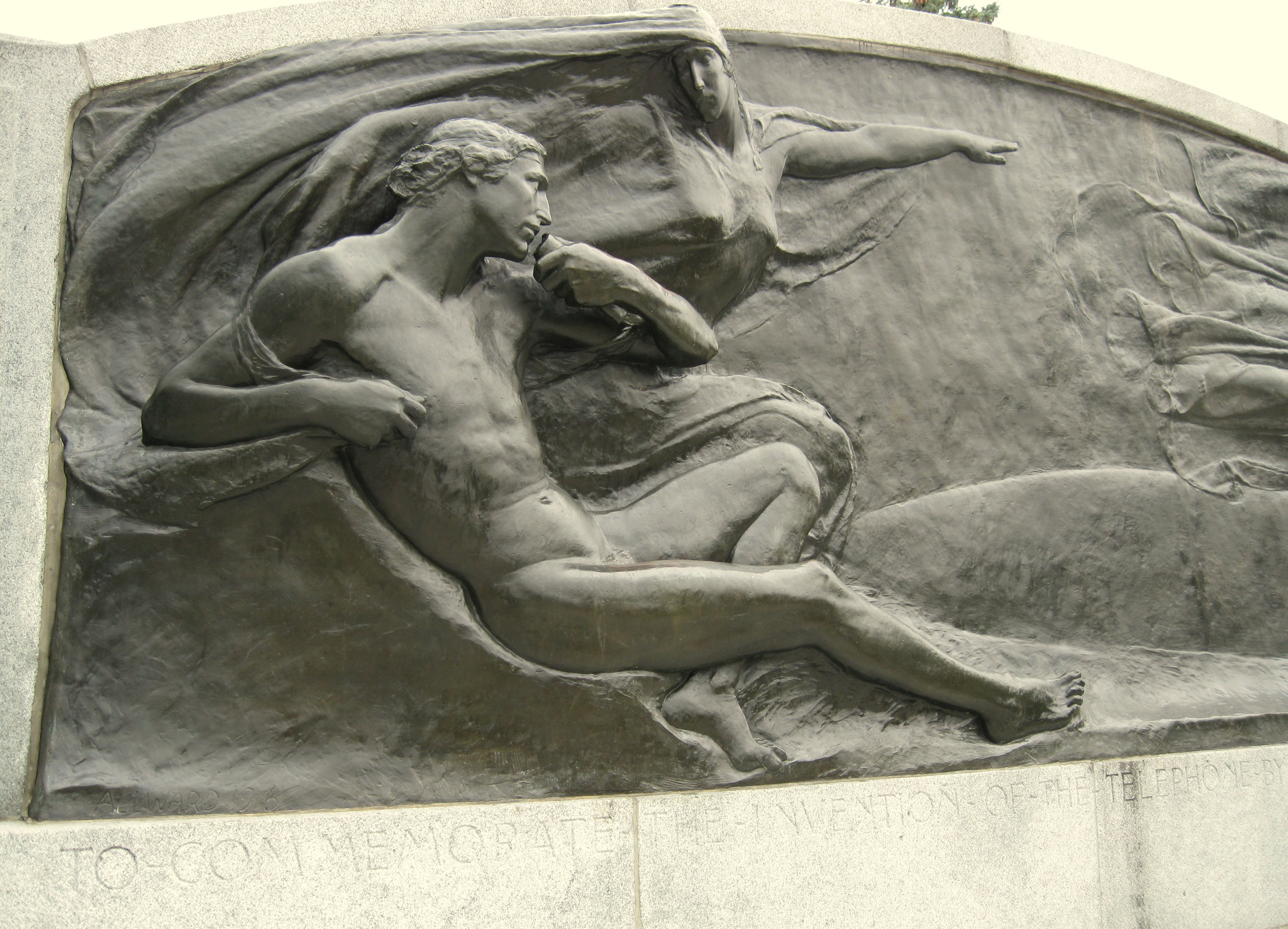 Bell Telephone Memorial, Alexander Graham Bell Park, Brantford, Ontario, Canada